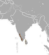 Indian Brown Mongoose (Herpestes fuscus) range